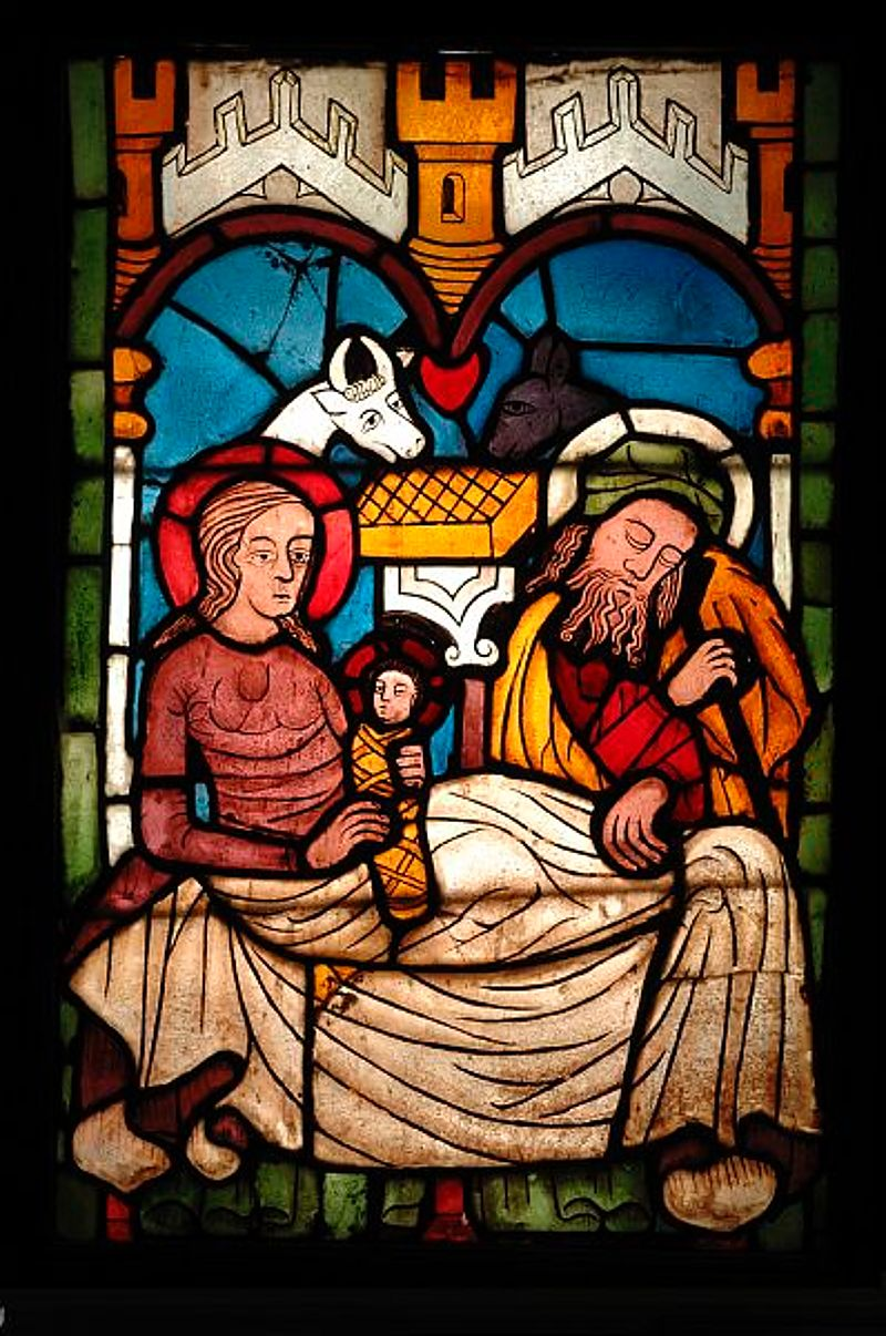 Birth of Christ, stained glass painting from Hablingbo Church, Sweden. Now in the History Museum of Sweden, Stockholm. Medieval.